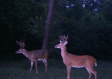 White-tailed bucks with antlers still in velvet, south Mississippi, USA